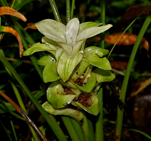 Curcuma longa- COMMON TURMERIC, Turmeric • Assamese: হালধি, Halodhi • Bengali: হলুদ Halud • Gujarati: હળદર Haldar • Hindi: हल्दी Haldi • Kannada: Arishina, Arisina • Malayalam: മഞ്ഞള്‍, Manjal • Marathi: हळद Halad • Nepali: हल्दी Haldi • Oriya: Haladi • Sanskrit: Haridra, Marmarii • Tamil: மஞ்சள் Manjal • Telugu: హరిద్ర, Haridra • Urdu: Haldi, ہلدی - in Goa, India.